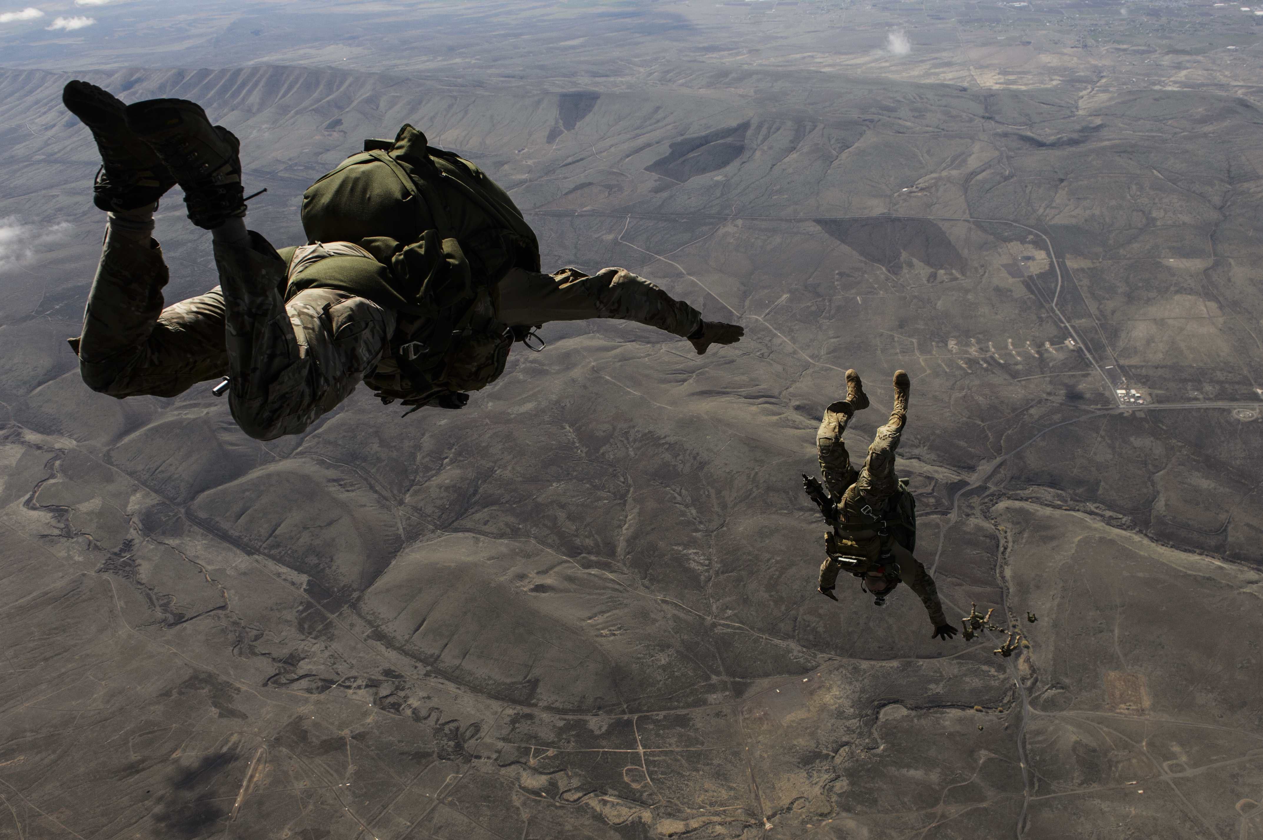 U.S. Army soldiers, 1st Special Forces Group, conducts a high altitude low opening jump from a C-130J Super Hercules, 39th Airlift Squadron, over Yakima training center, Wash., April 22, 2014. Special forces soldiers are experts in unconventional warfare, direct action, special reconnaissance, foreign internal defense and combating terrorism. (U.S. Air Force photo/Staff Sgt. Jonathan Snyder) Unit: 3rd Combat Camera Squadron DVIDS Tags: Airmen; C-130J; loadmasters; Air Force; Special Forces; HALO; Aviation News